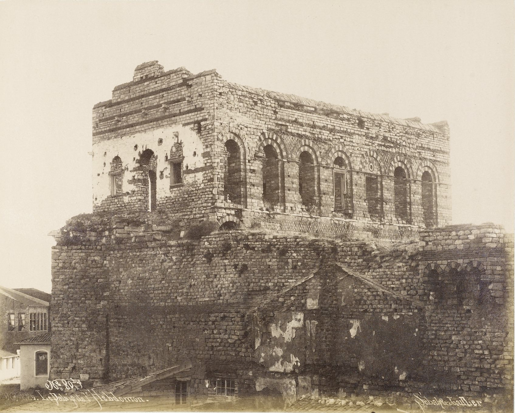 Tekfur Sarayı / Sébah ve Joaillier Fotoğrafı